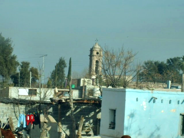 ejido en durango